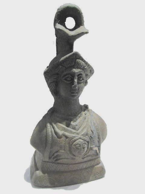 Steelyard weight from the Port of Theodosius at Yenikapı. 6th-7th century CE. Bronze and lead.